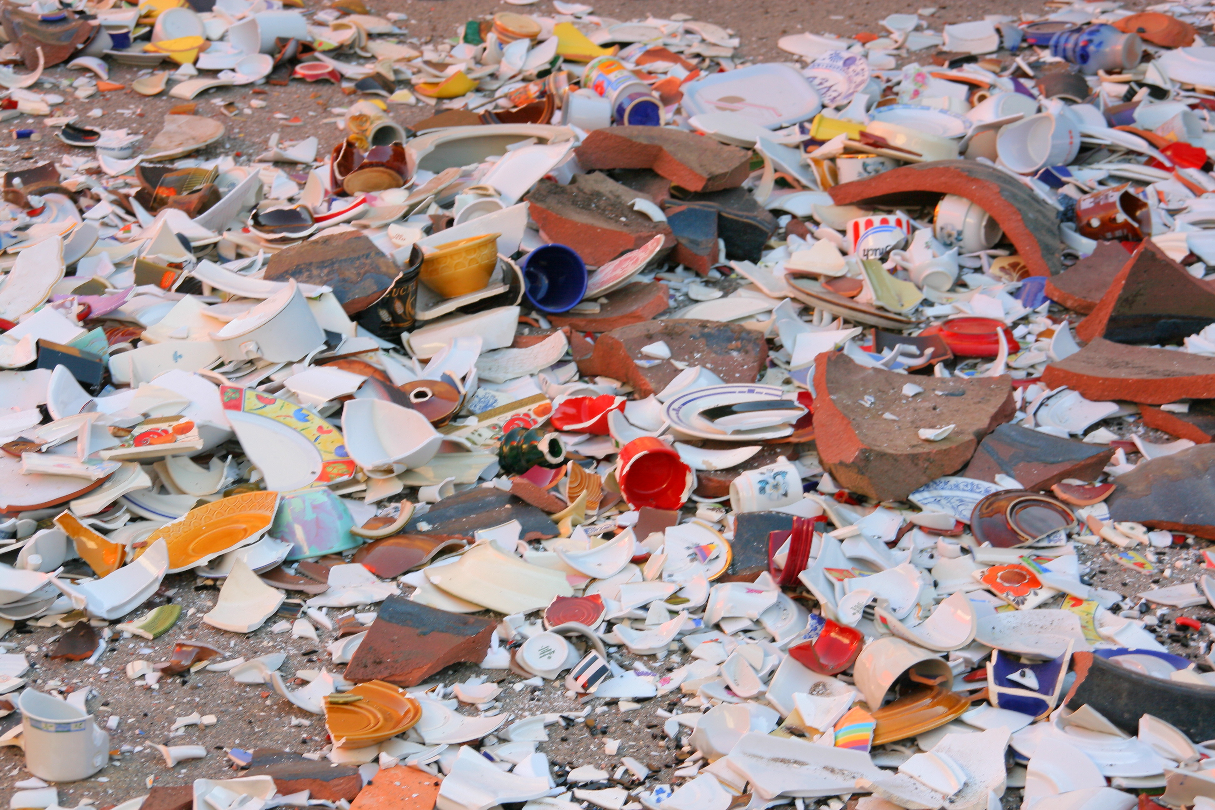 shards at a "Polterabend"